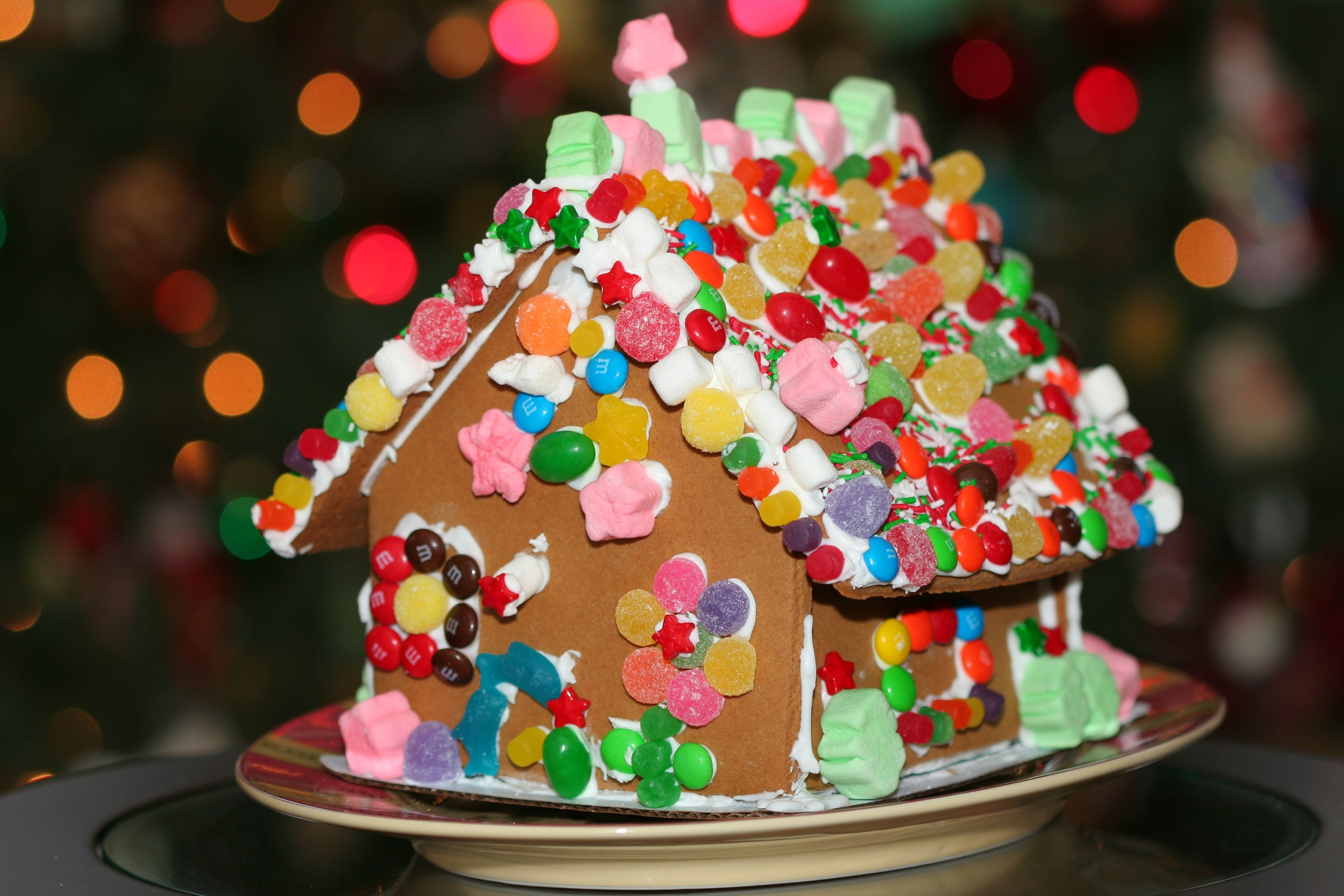 A gingerbread house constructed by my wife and son. Decorations include M&Ms, gumdrops, mashmallow bears, and, oddly enough, Sun Chips. Details: Tripod, on-camera 280 series Speedlite with diffuser, minimal post-processing in Picasa. The difficulty in this shot is getting the focus right. In the low light environment of the living room after sunset, there's not much light to work with. Used manual focus to try to hit that right after numerous AF failures. The exposures requires that you nail the house correctly while not screwing up the bokeh from the tree. Shot in "P" mode--a rare thing for me, but usual successful with flash.